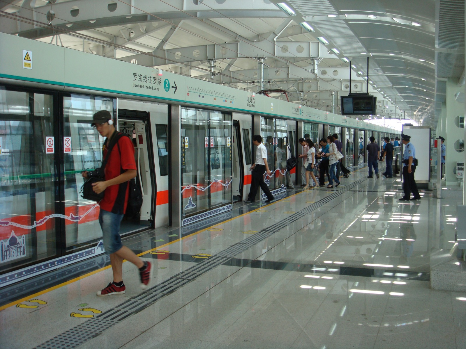 Airport East Station of Luobao Line, Shenzhen Metro.The train was leaving for Luohu Station.